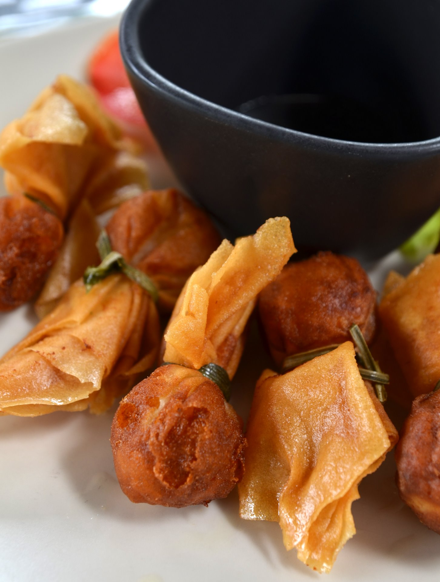 Thung thong kung sot (Thai script: ถุงทองกุ้งสด) are deep-fried wonton skins filled with minced prawns. 'Thung thong' literally means "bag of gold". The "strings" binding the "bag" are strips of pandanus leaf for extra taste.